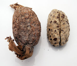 Alligator Pepper fruit and seeds image, created by Dyfed Lloyd Evans July 22nd 2007